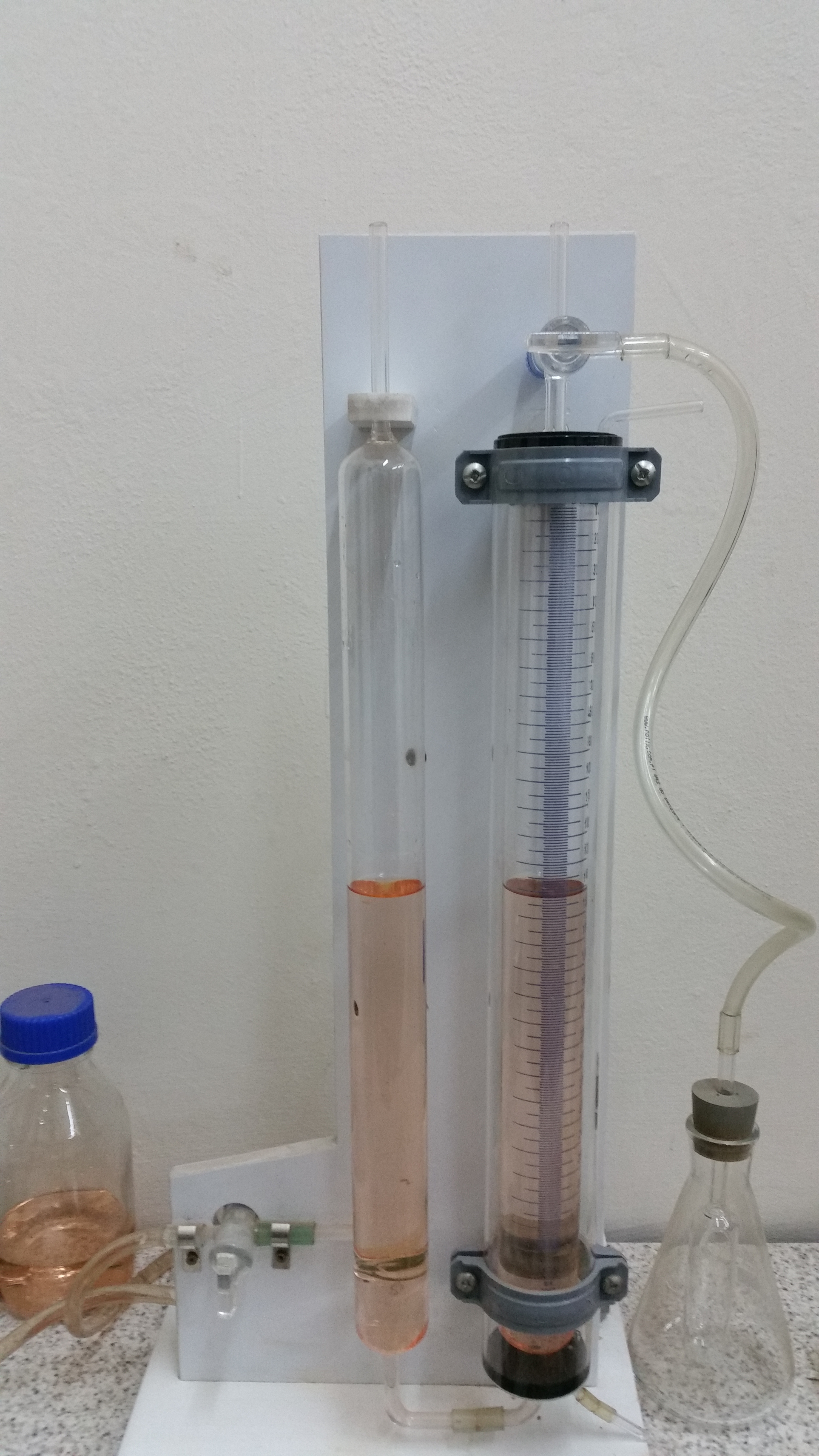 Scheibler apparatus used to analyze the amount of calcium carbonate in the soil or sediment by Scheibler's method.